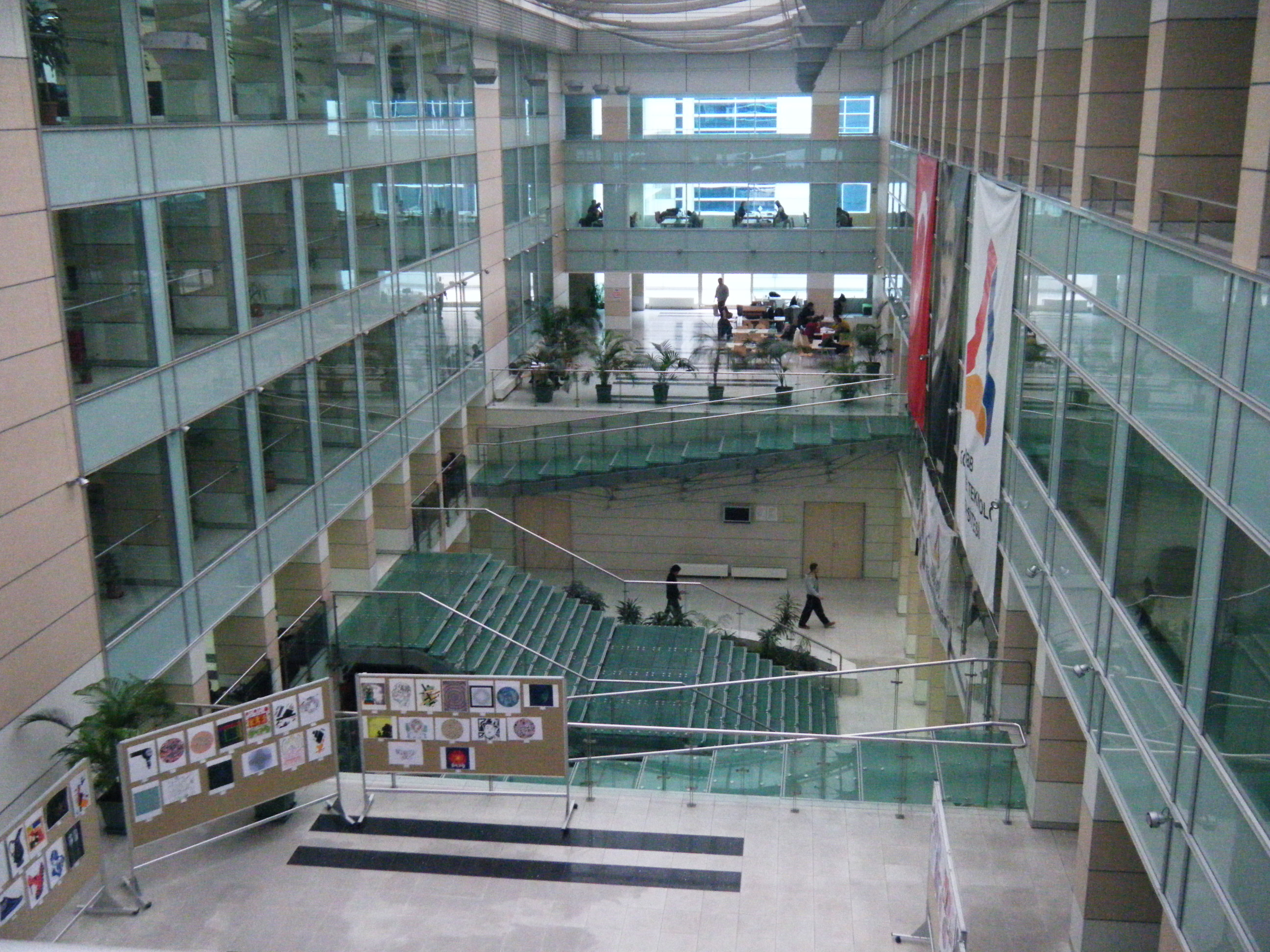 View on TOBB University